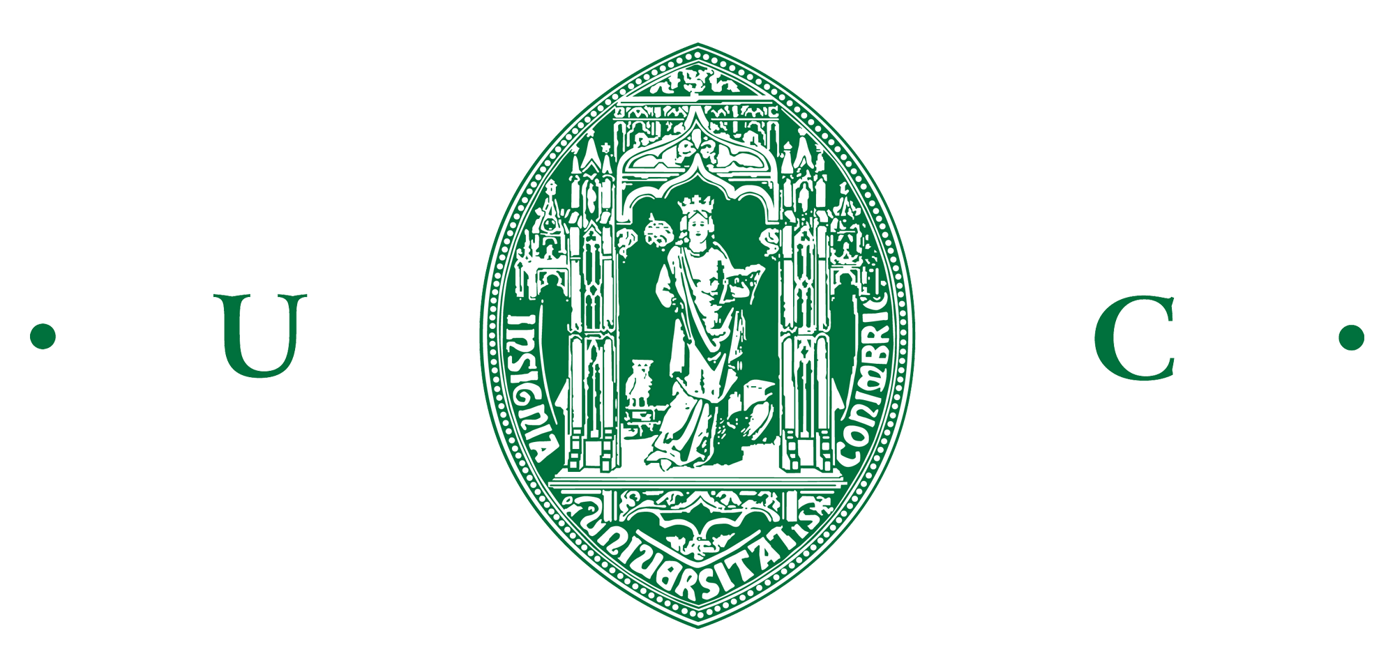 Logo of the University of Coimbra, Portugal